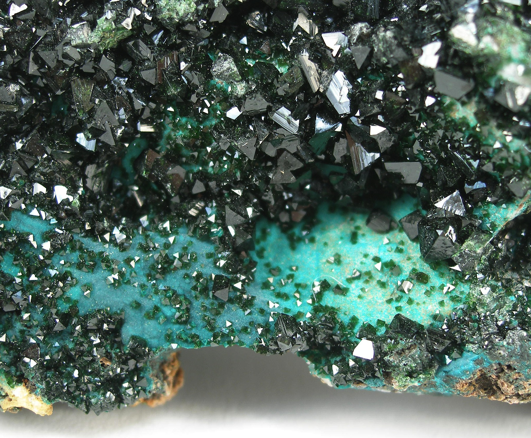 Libethenite Locality: Kambove, Central area, Katanga Copper Crescent, Katanga (Shaba), Democratic Republic of Congo (Zaïre) (Locality at ) Size: small cabinet, 8.0 x 4.6 x 3.3 cm Libethenite SHARP, intensely colorful crystals to about 3 mm cover this matrix plate and make for a very attractive and significant example of the species for this locale. Although you get larger libethenite from other places, the lustre and sharpness of these crystals is, for me, among the top for the species. They look like little green metallic octohedra at first glance. From the John Ydren collection, purchased for $125 in 1972 (a lot of money for those days!). Again, while you can get bigger crystals, this to me has more flash and color appeal than most, and overall is a superb example of the species.